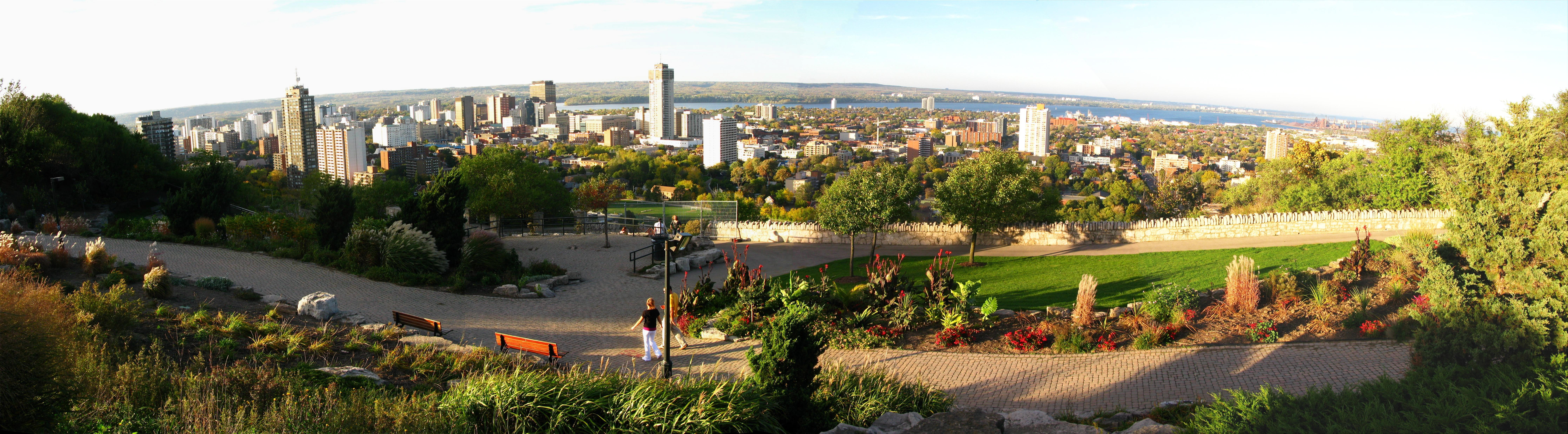 Panoramic view of city of Hamilton, Ontario, Canada as seen from Sam Lawrence Park.